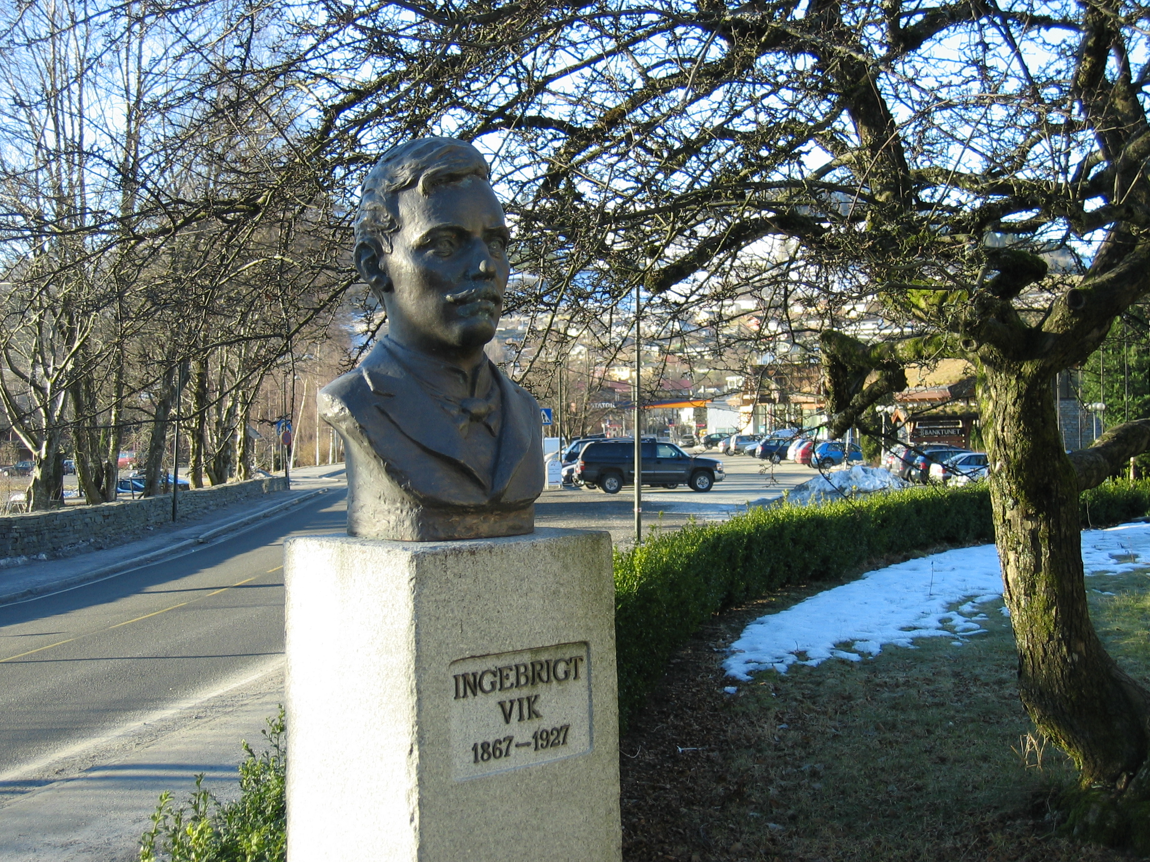 Ingebrigt Vik, Norwegian artist (1867 - 1927) (sculpturer). Sculpture in his hometown, Øystese, Norway. Photo by user:PerPlex